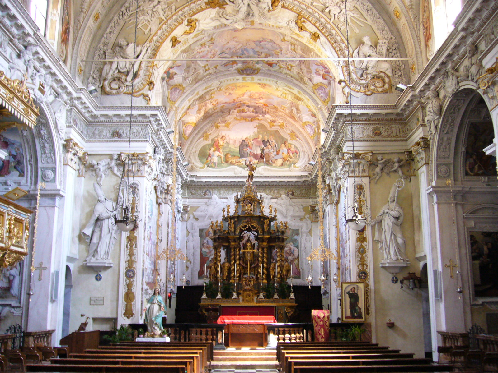 The church San Vittore in Porlezza, Italy. Picture taken by Susanne Acht, August 13, 2006.